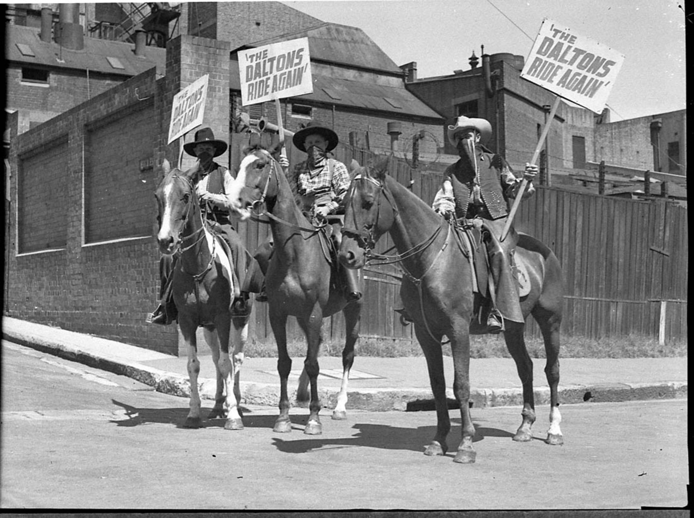 Horse parade promoting the film The Daltons Ride Again (1945) (taken for Capitol Theatre)